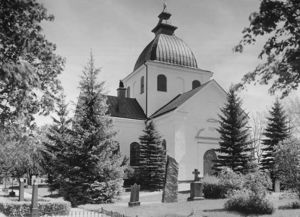 Ervalla church outside Örebro, Sweden